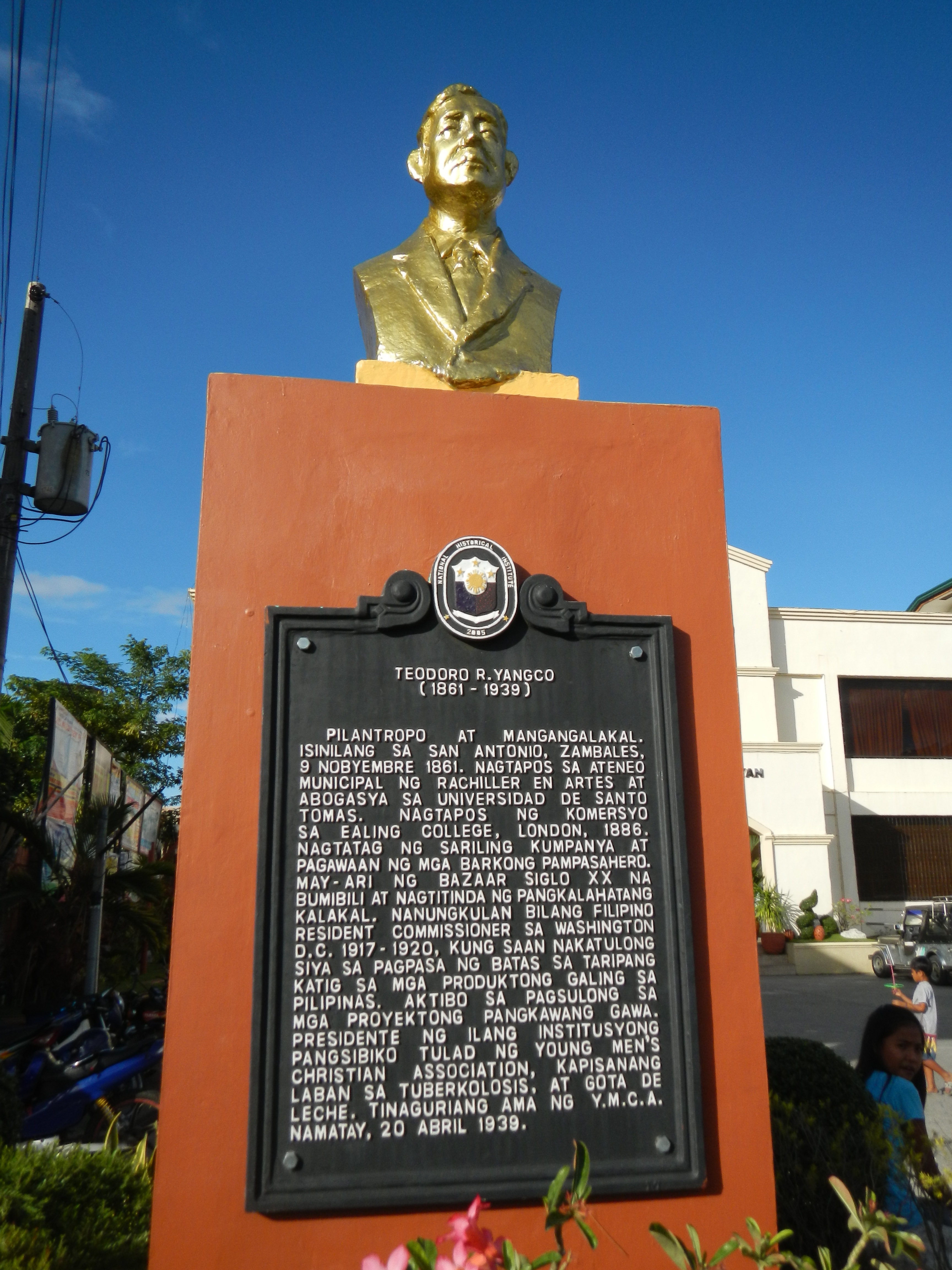 San Antonio, Zambales[1] is a 2nd class municipality in the province of Zambales in the Philippines. According to the latest Philippine census, it has a population of 34,217 people in 6,483 households in an area of 18,812 hectares. As of 2010, it has 17,539 registered voters.[2]Barangay Pundaquit (Pundakit) is a fishing village located in San Antonio, Zambales. Camara Island Capones Island Anawangin Cove Nagsasa Cove Public Market[3][4]Land Area: 188.12 km² ZIP Code: 2206 Coordinates: 14°51'27"N 120°6'42"E